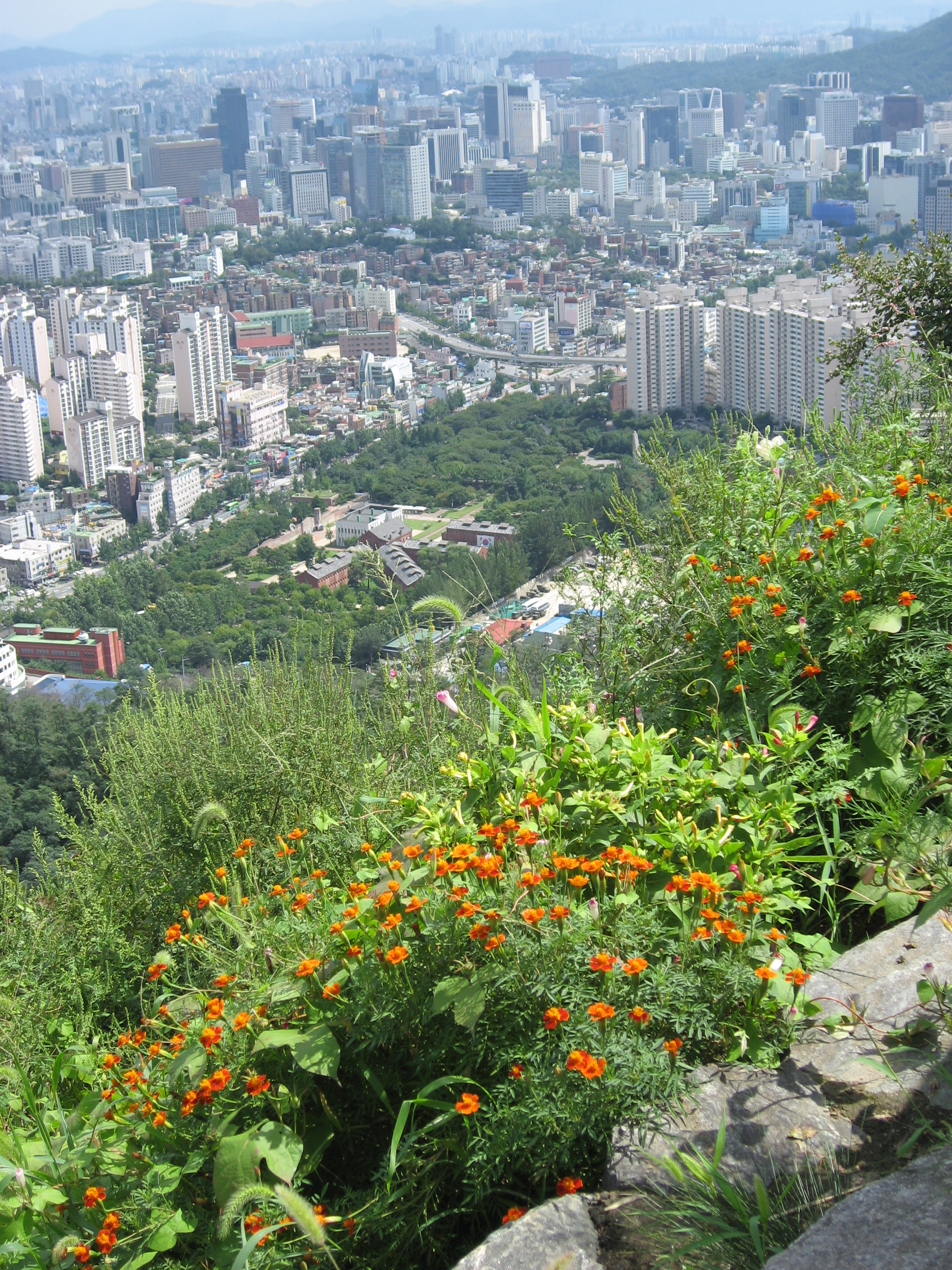 A view of Seoul from Ansan, South Korea